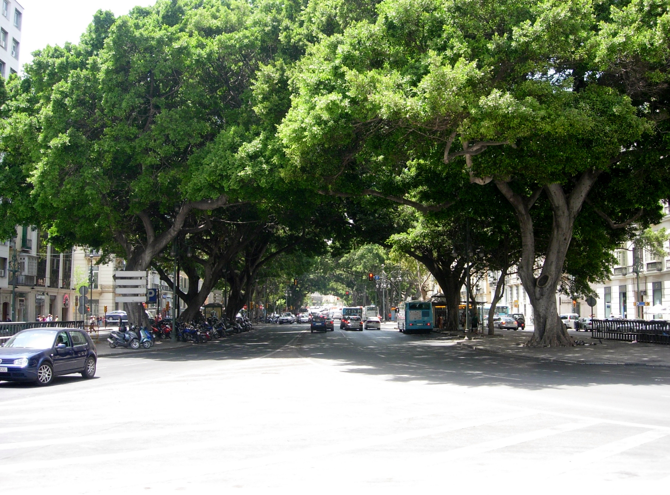 Alameda Principal, Málaga, España.